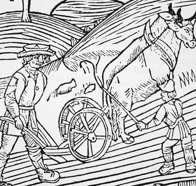 The Boke of Surveying and Improvements, 1523 engraving on title page